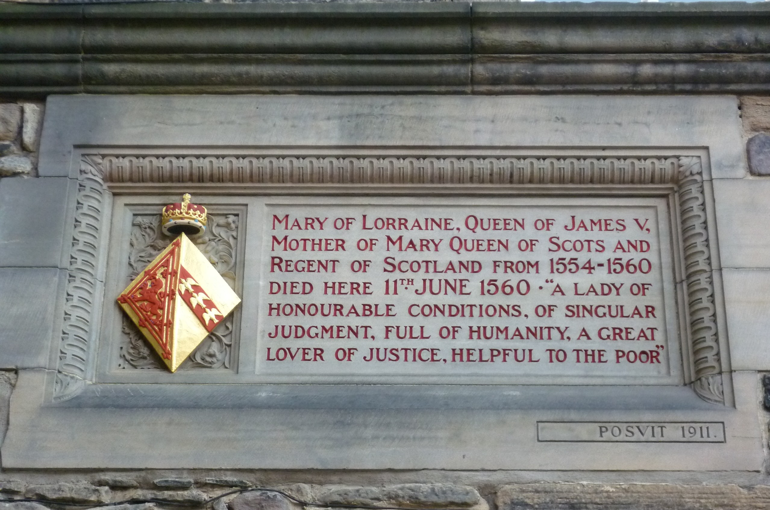 A modern tribute to James V's queen, expressing sentiments that would not be shared by many of her Scottish contemporaries who saw her as an obstacle to the Protestant Reformation. She was taken ill during the Siege of Leith (1560) and returned to the Castle where she died, aged 45. Her body lay for nine months in St. Margaret's Chapel before arrangements were made to take it to France. She was buried in the Convent of Saint-Pierre in Rheims where her sister was Abbess.